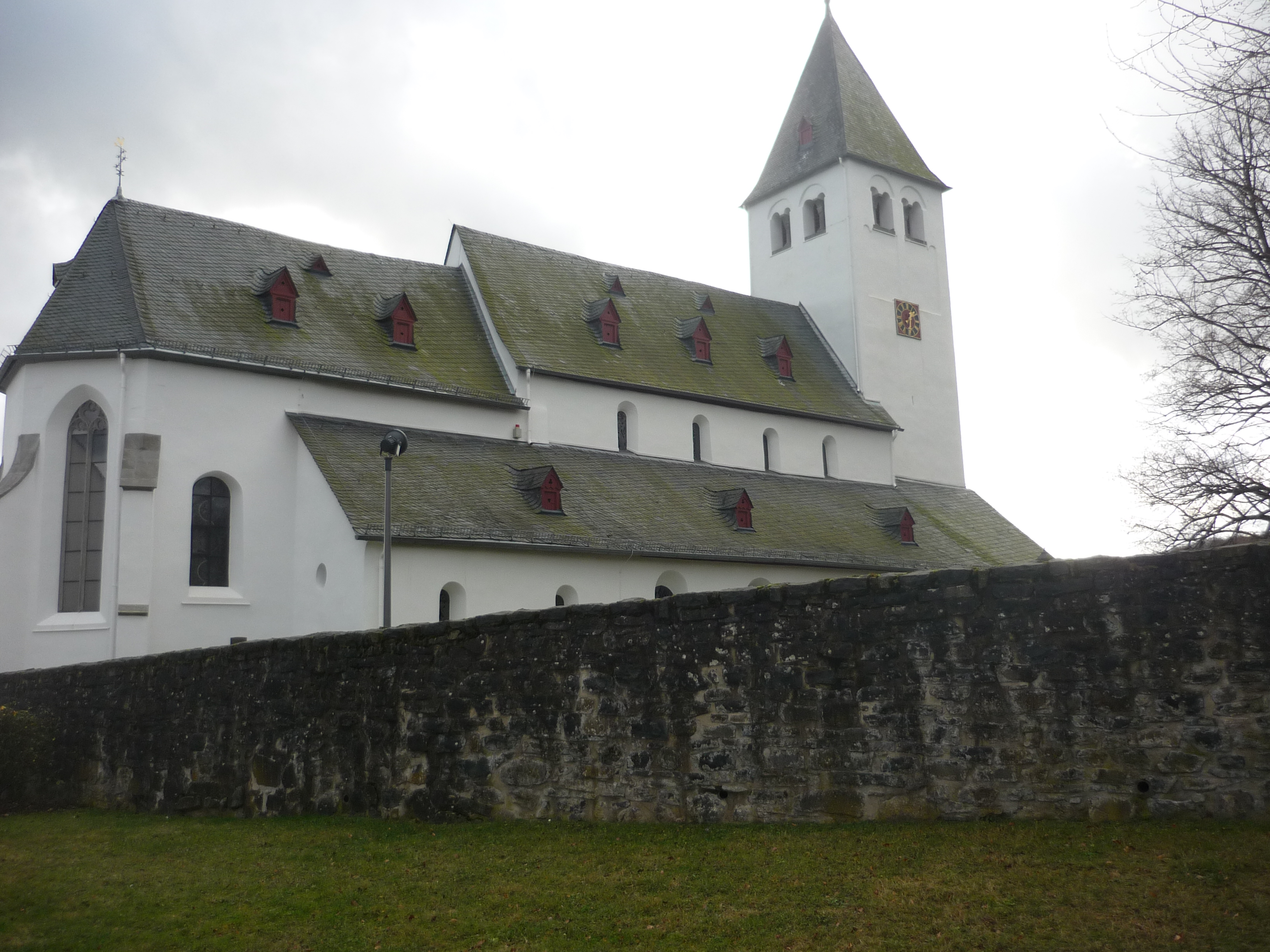 church in salz westerwald